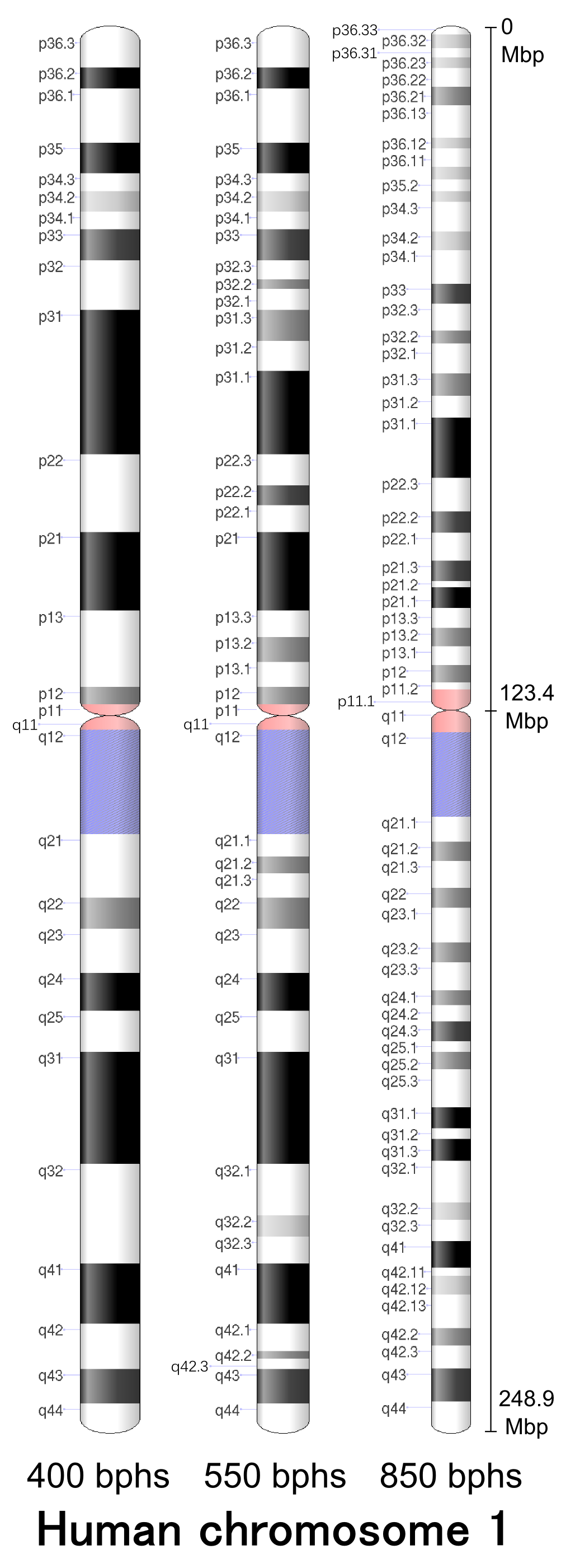 Ideograms of G-band pattern of human chromosome 1 in three different resolutions (400, 550 and 850 bphs, bands per haploid set). Different resolutions are corresponding to different band patterns observed through mitotic phase (about relation between banding resolution and mitotic phase, see, for example, Fig.3 in W Sethakulvichaia (2012)). Legend: Black and gray is Giemsa positive. Red is centromere. Light blue is variable region. Dark blue is stalk. At the right, centromere position (center) and q arm terminus position (bottom), counted from p arm terminus (top) in Mbp (mega base pairs), are labeled. Physical length (sometimes referred as "absolute length") is not labeled. Because physical length of chromosomes vary while mitosis. (typical human chromosome physical length is in the order of from several micrometers to ten and several micrometers. See, for example, Category:Human chromosome images with scale bars.).